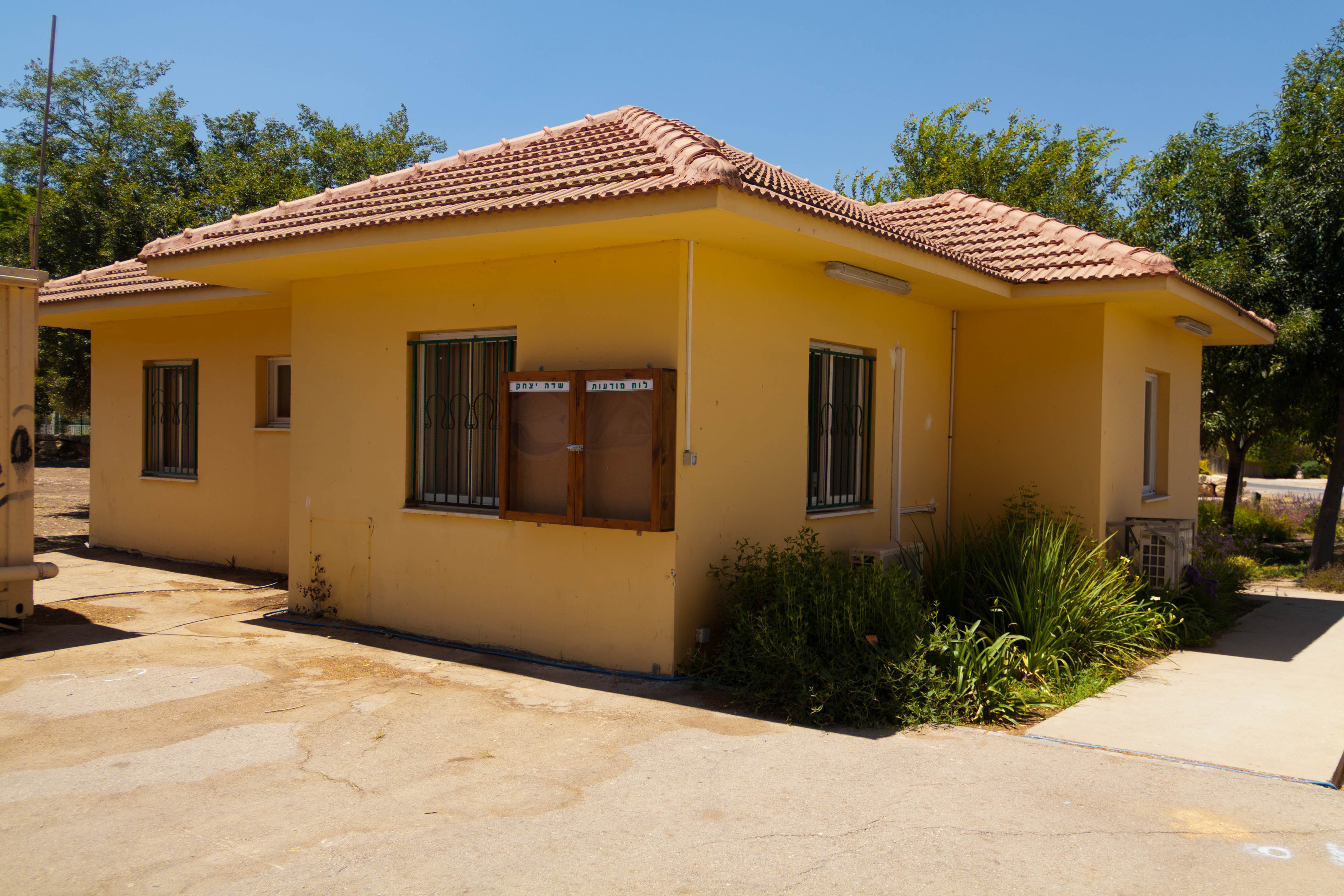 Sde Yitzhak's administrative office